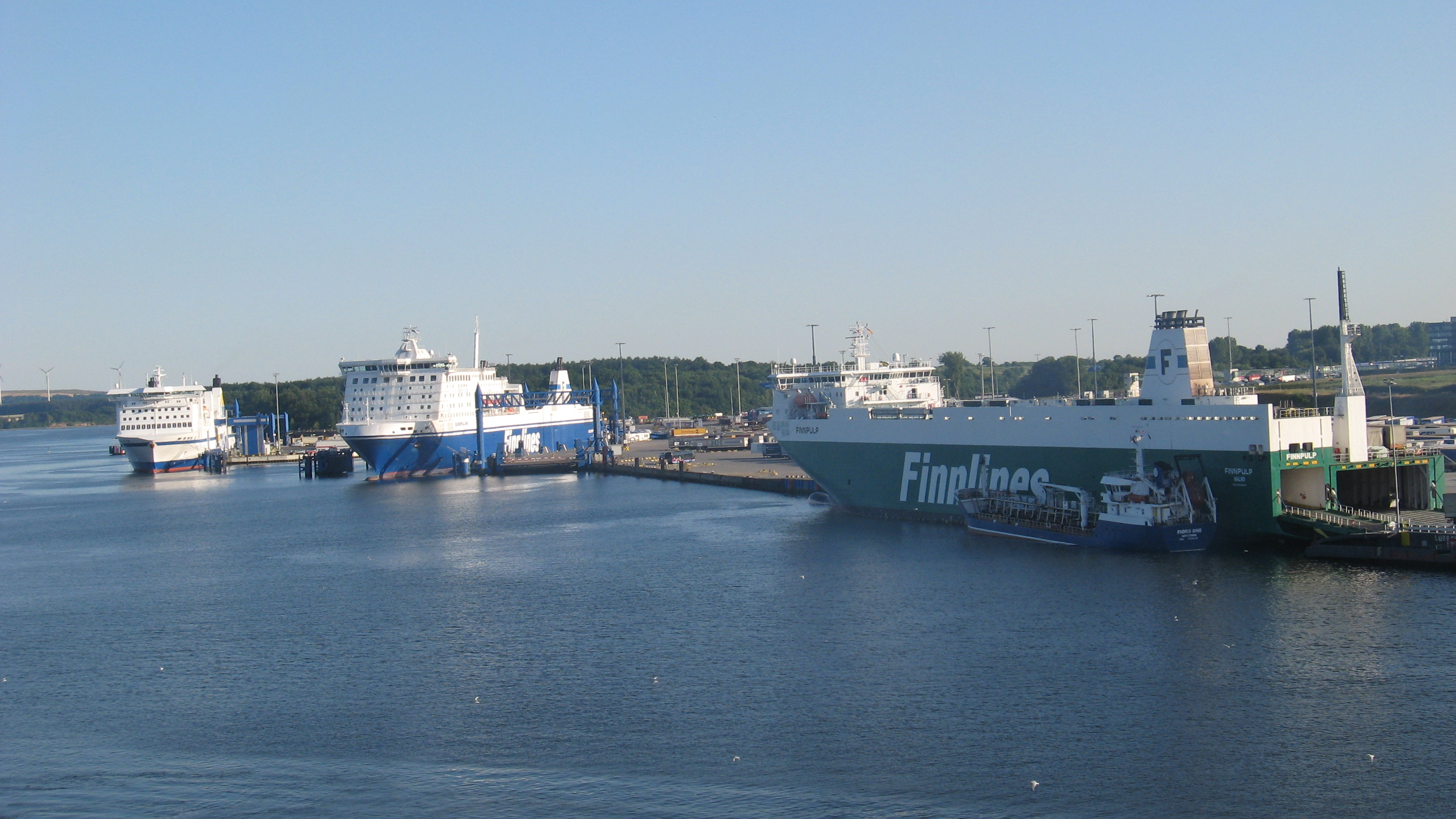 From left to right: M/S Nils Holgersson (IMO 9217230), M/S Europalink (IMO 9319454), M/S Finnpulp (IMO 9212644) and M/S Fjord One (IMO 9280110)(in front of Finnpulp) in Travemünde harbour, Germany.